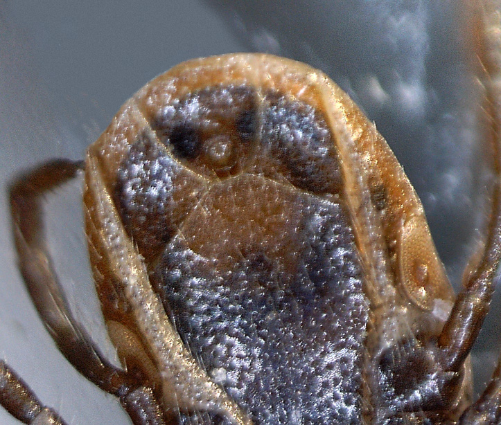 Male Tick Ixodes ricinus found in the forest of Flines-lès-Mortagne (northern France, near the Belgian border) July 2015